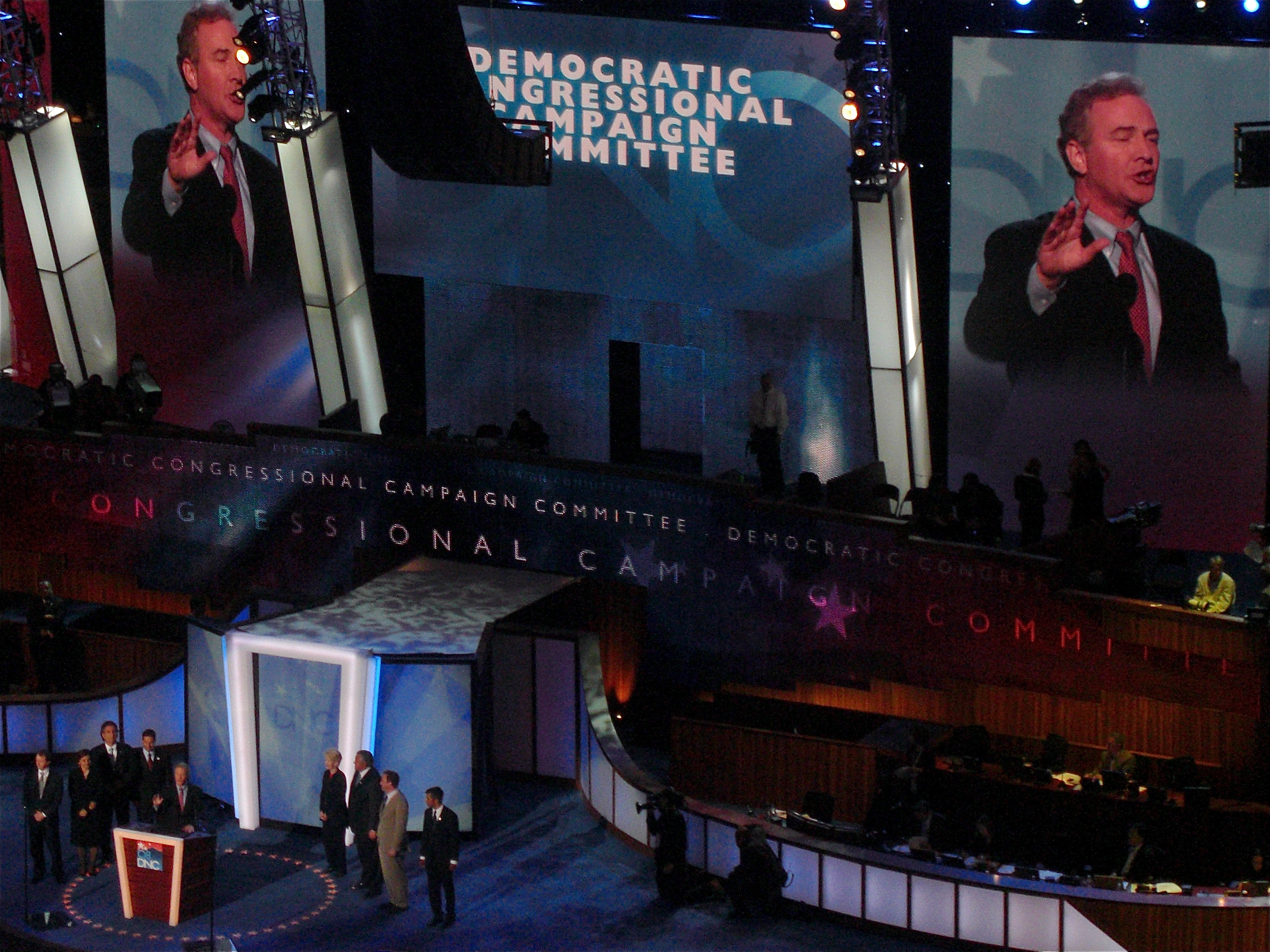 Chris Van Hollen speaks during the second day of the 2008 Democratic National Convention in Denver, Colorado, United States.